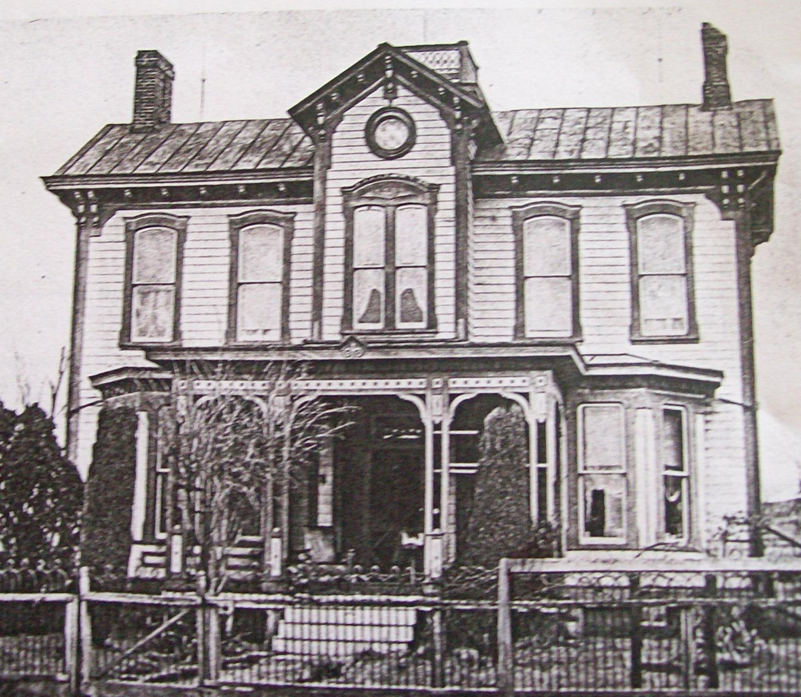 The Barnett-Criss House between New Concord and Cambridge on Ohio State Route 22.